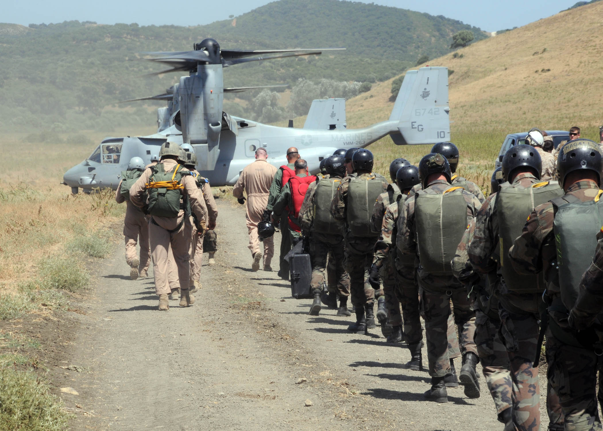 SIERRA DEL RETIN, Spain (June 23, 2011) Marines assigned to the 22nd Marine Expeditionary Unit (22nd MEU) and Spanish marines embark an MV-22B Osprey assigned to Marine Medium Tiltrotor Squadron (VMM) 263 (Reinforced) to conduct parachute operations during the bilateral Spanish Amphibious Landing Exercise (PHIBLEX) 2011. (U.S. Navy photo by Mass Communication Specialist 3rd Class Erin Lea Boyce/Released)